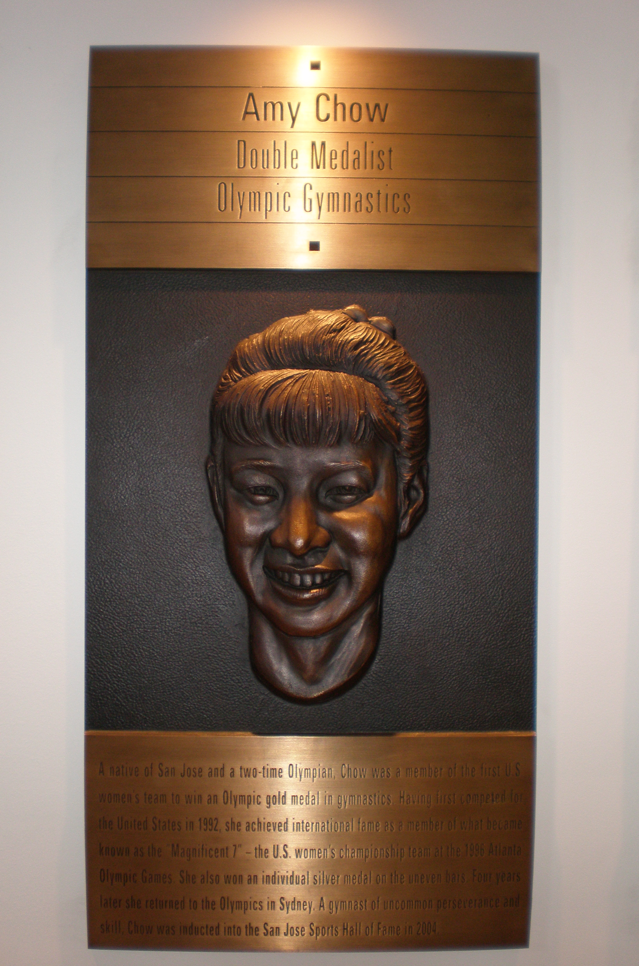 Amy Chow's plaque at the San Jose Sports Hall of Fame, displayed at HP Pavilion in San Jose, California.